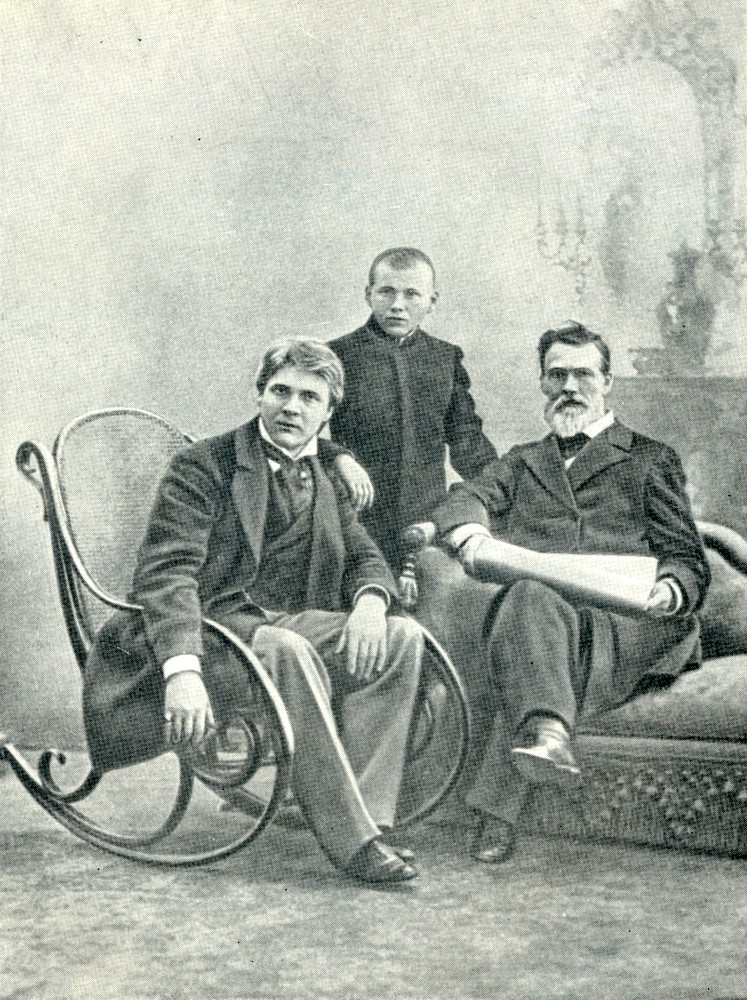 Russian bass, Feodor Chaliapin (1873 - 1938) with his father and brother